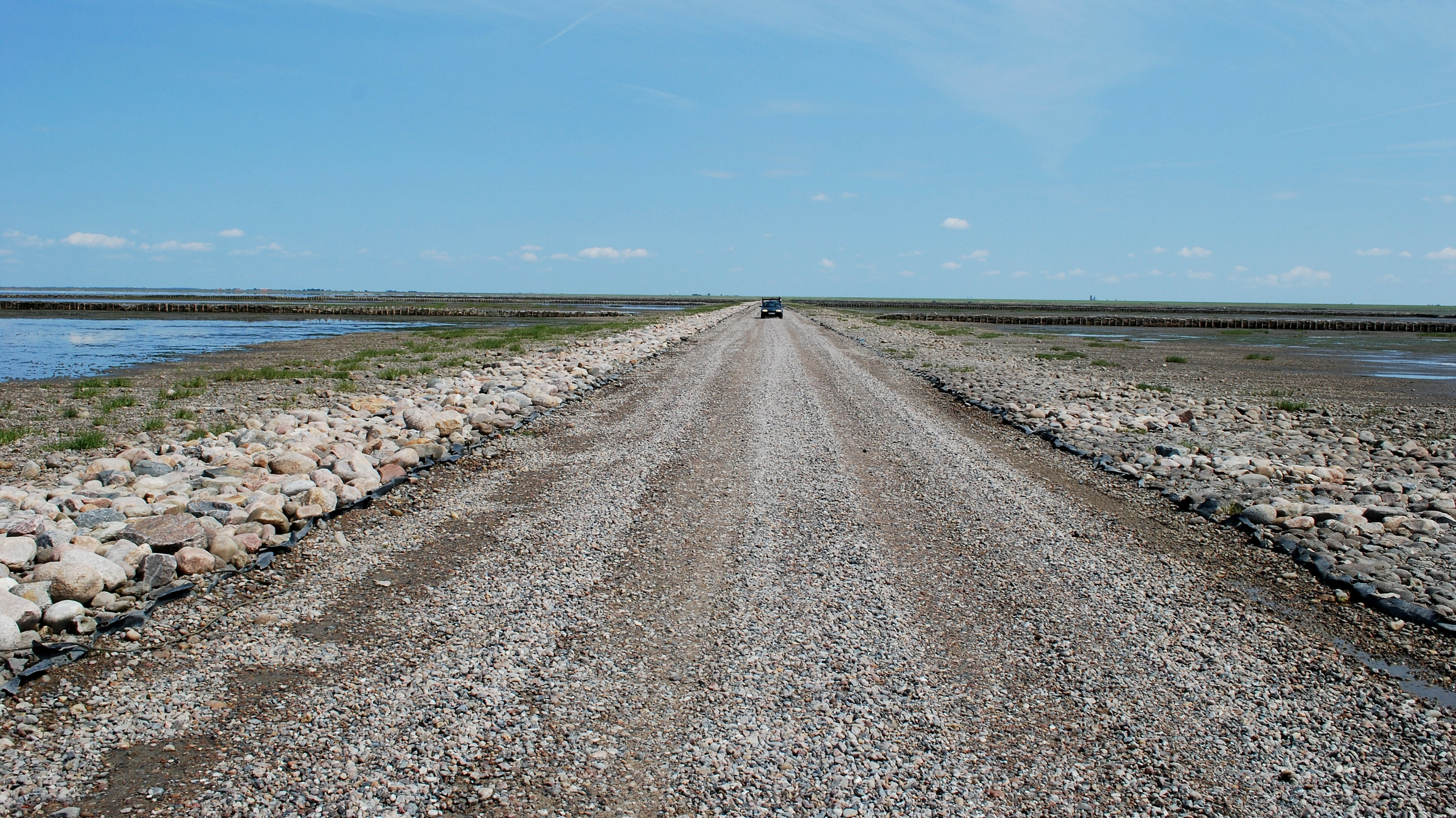 "Låningsvejen" Mandø is barely accessible at high tide over an unpaved surface level causeway of about four kilometers in length that connects the island to the mainland.